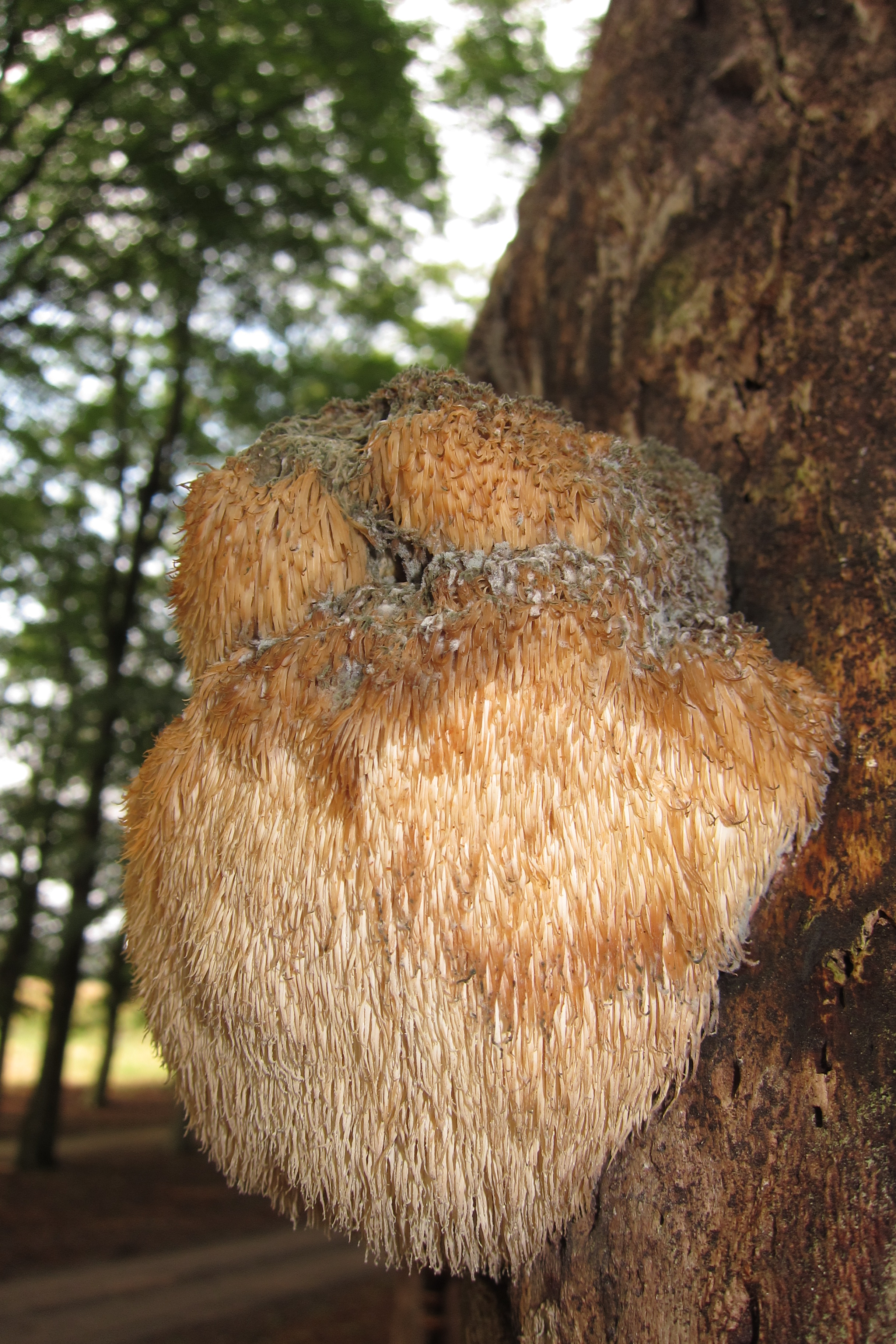 Hericium erinaceus (GB= Lion's Mane Mushroom or Bearded Tooth Mushroom, D= Igel-Stachelbart or Löwenmähne, NL= Pruikzwam) is nearly at its end at 30 September 2014 at Planken Wambuis